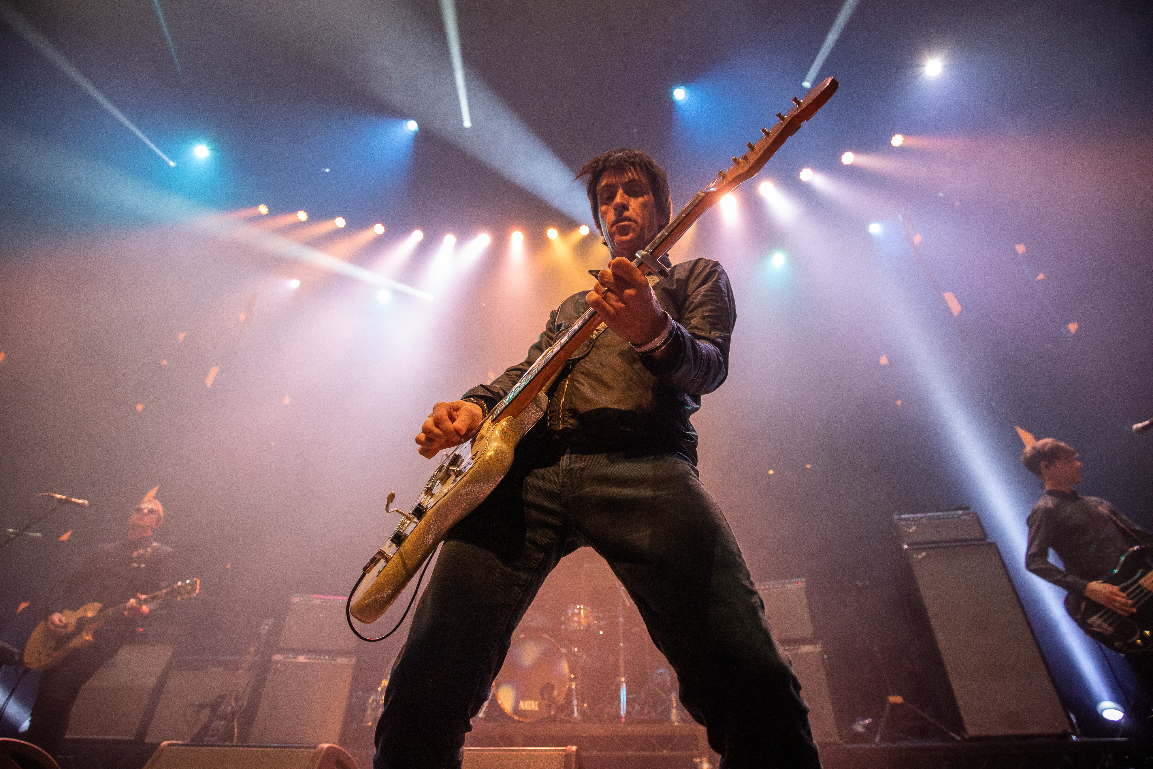 Johnny Marr at the AIM awards 2019